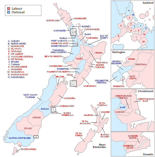 Election map depicting the party list results of the New Zealand general election, 1999. Colours denote the highest polling party in each electorate.